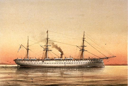 British troop transport ship HMS Crocodile.